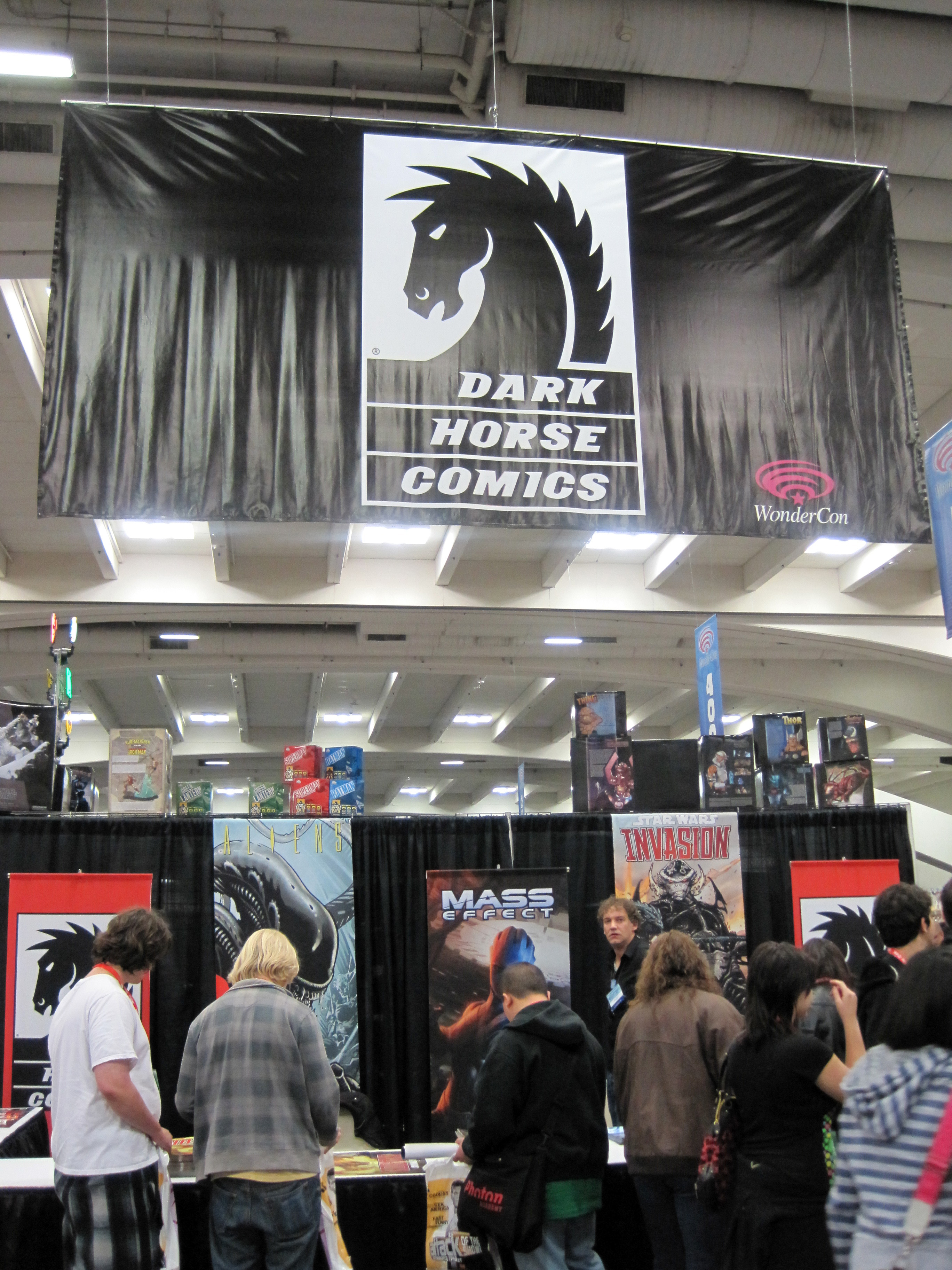 The Dark Horse Comics booth at WonderCon 2010.